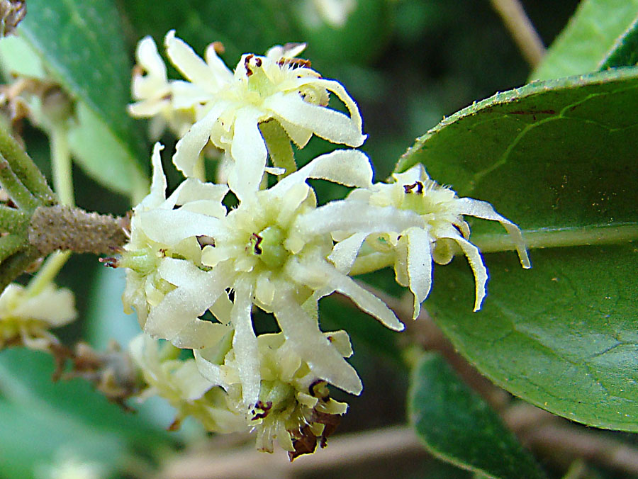 Flowers of Boldo, a common tree in central and southern Chile. In context at